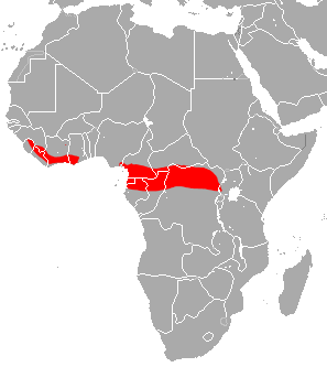 Sooty Roundleaf Bat (Hipposideros fuliginosus) range